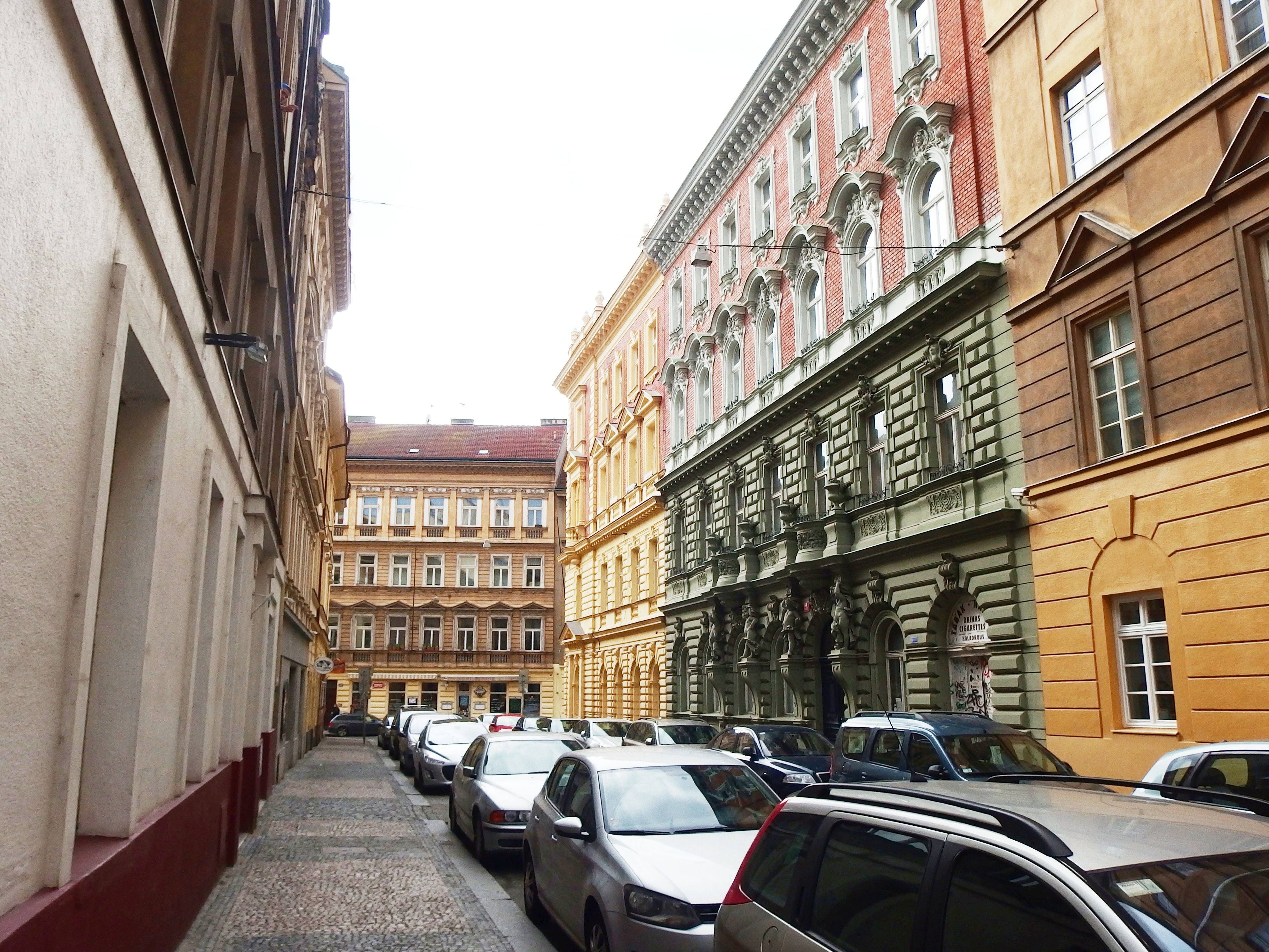 Prague, V Jirchářích street.